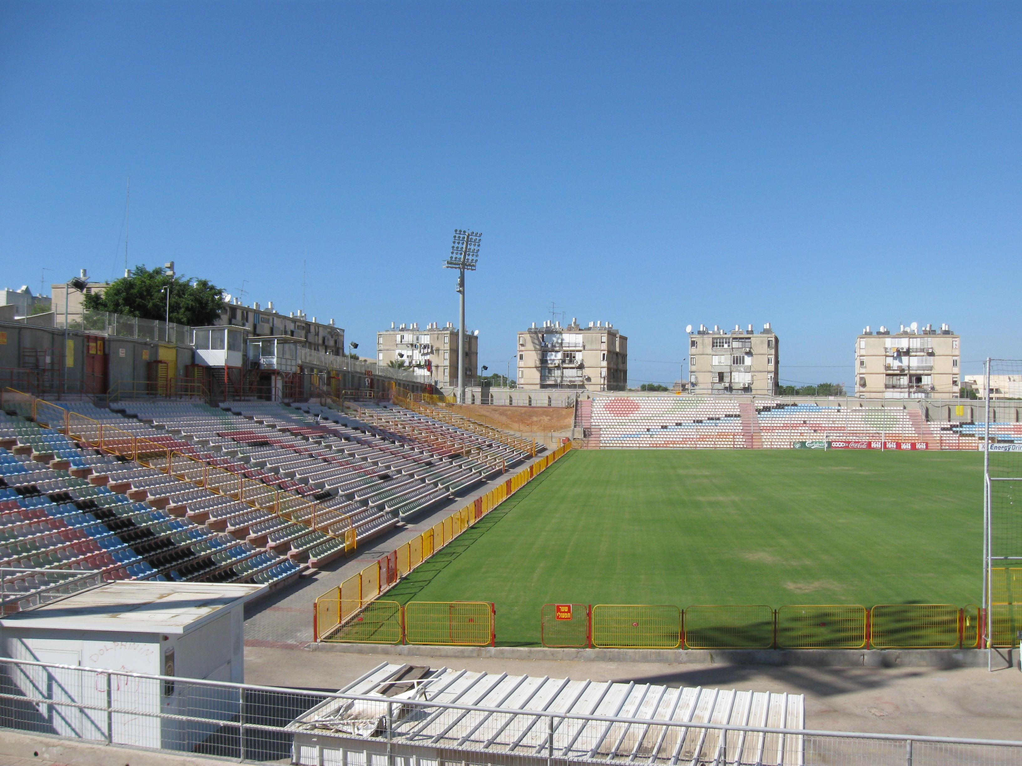 Hayod Alef Stadium (View from the south)